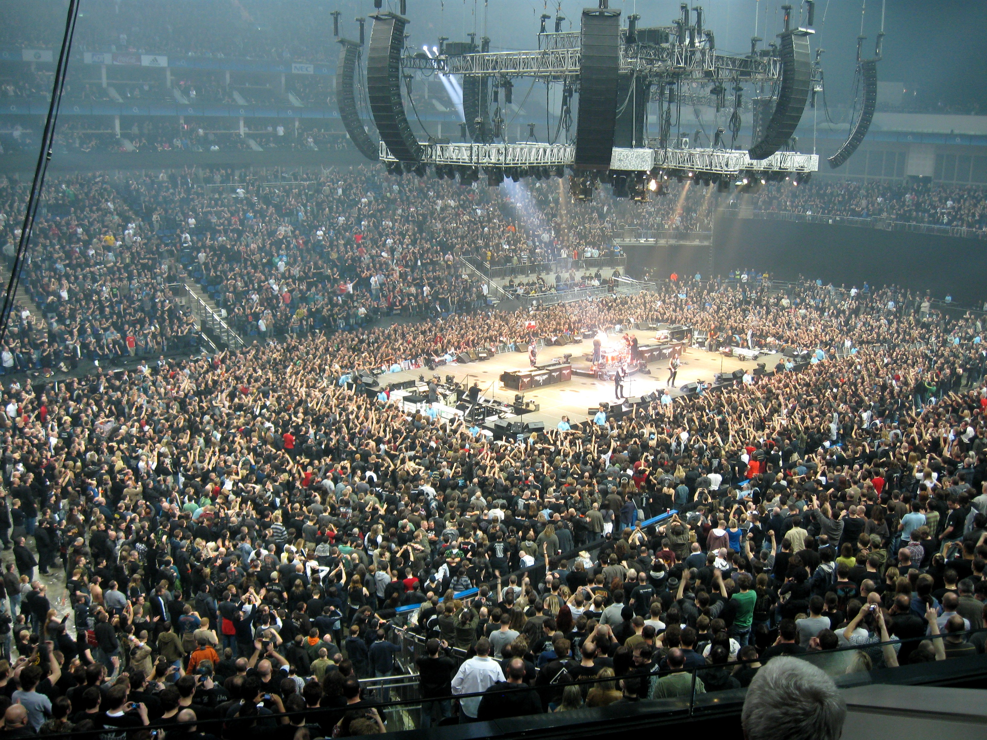 Metallica at the O2 Arena, March 28th 2009 For the encore the house lights were turned on - handy for anyone with a camera.